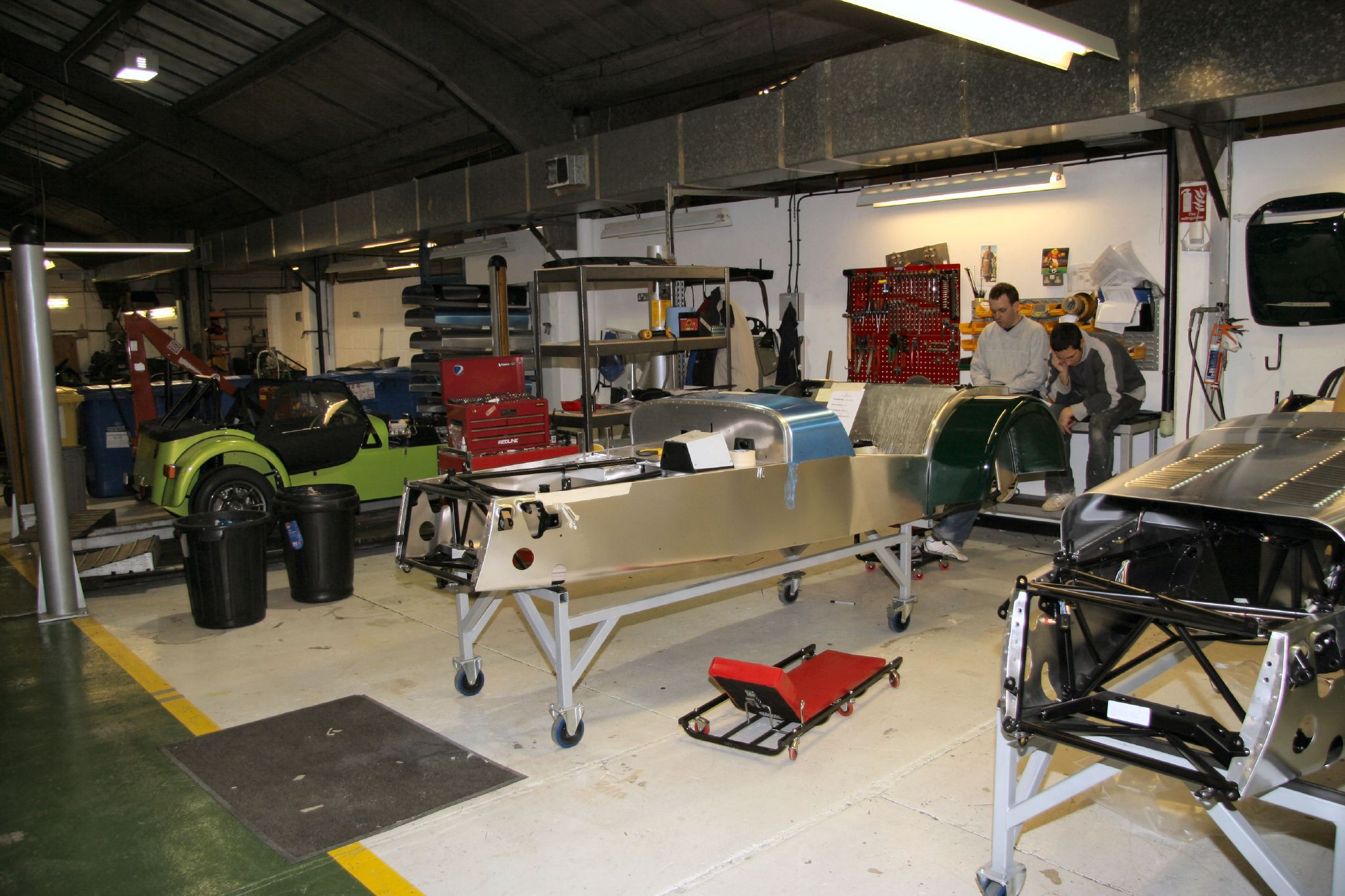 I went to Caterham at Dartford to exchange two items of clothing I got for Christmas. While I was there they showed me around the production area.